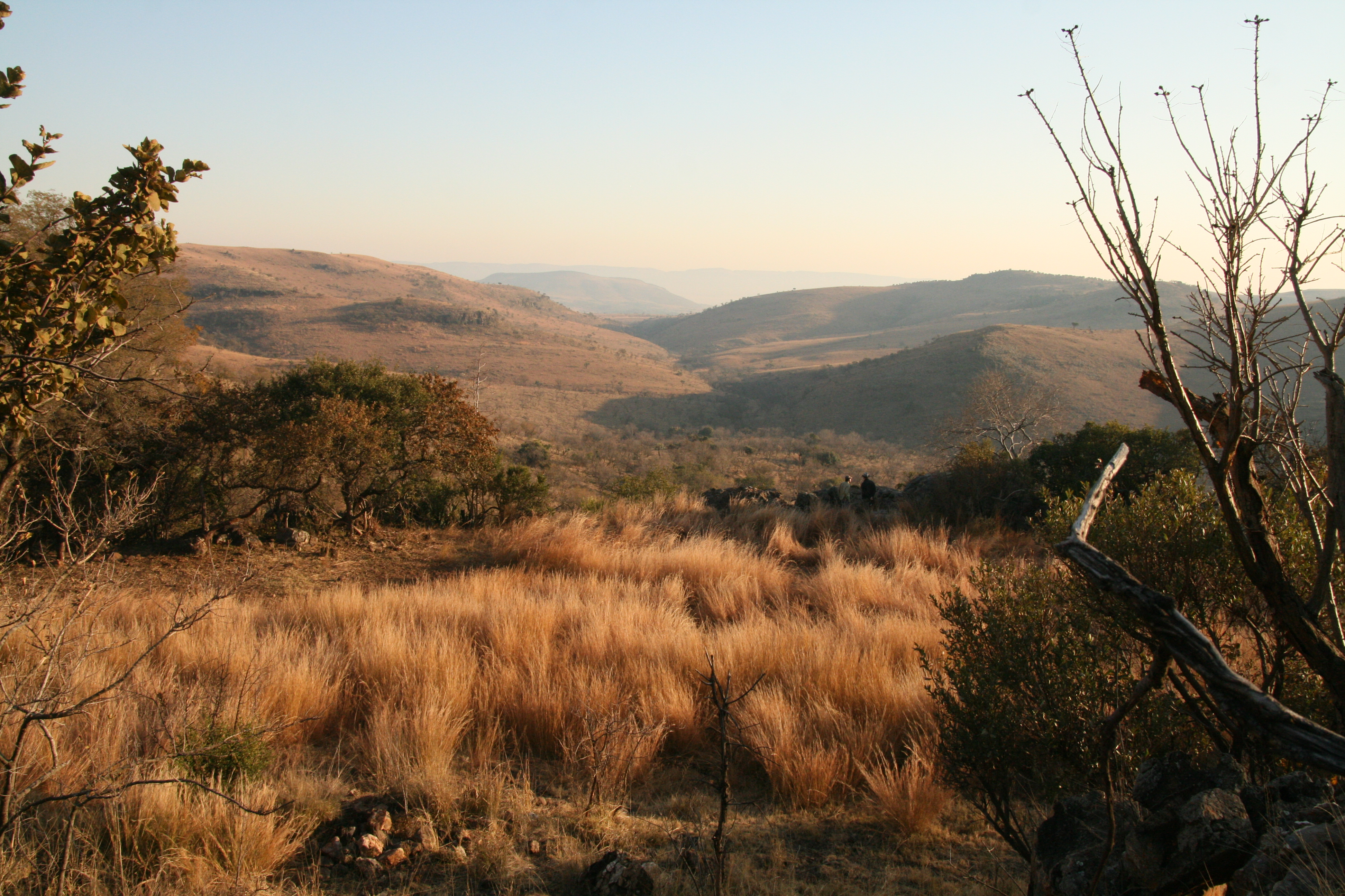 The Malapa site valley, looking North, Cradle of Humankind, South Africa, August 2011. The malapa site, distant centre is the site of discovery of the early hominin species Australopithecus sediba. Photo by Lee R. Berger